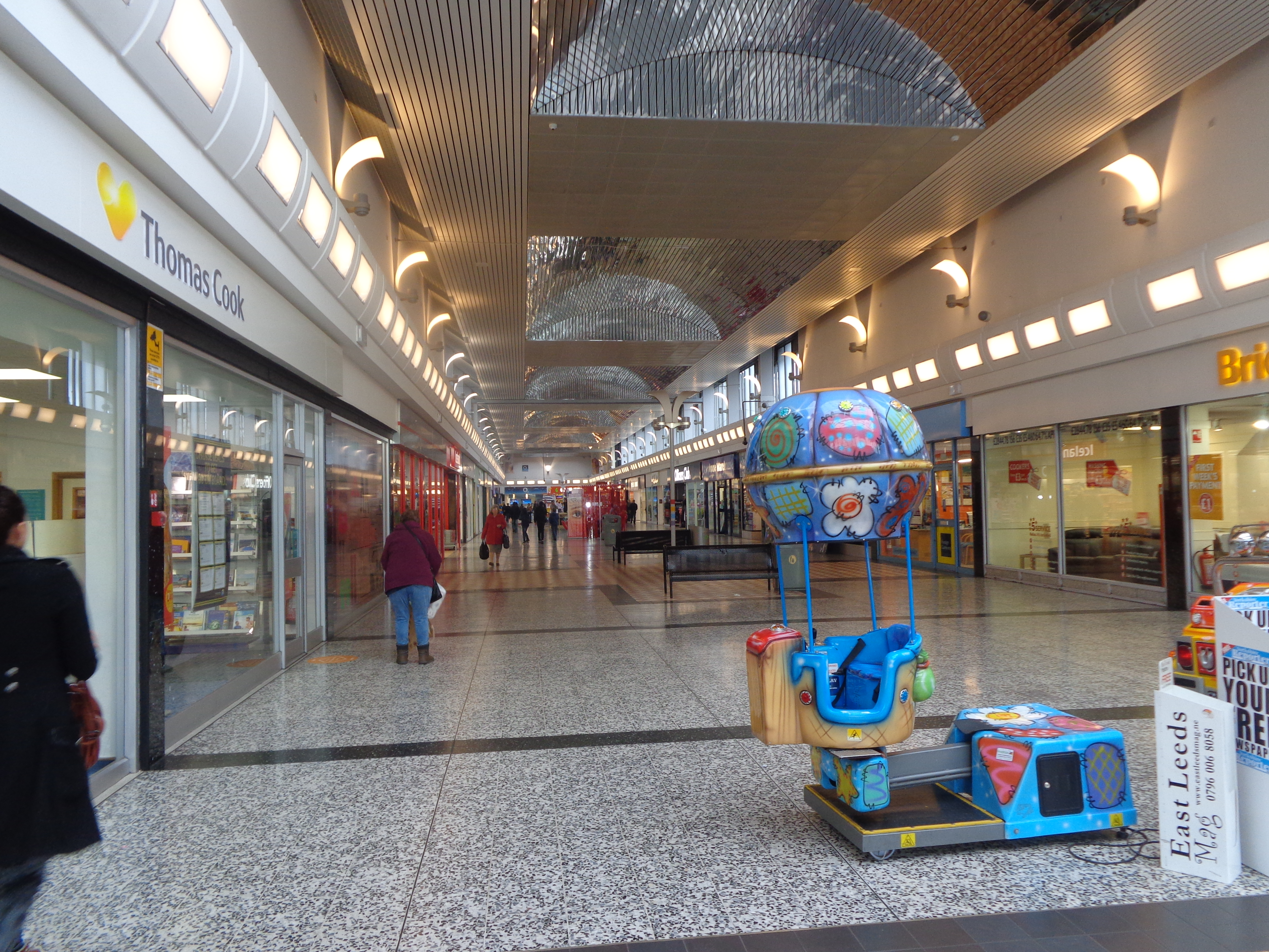 Cross Gates Centre, Cross Gates, Leeds, West Yorkshire. Taken on the afternoon of Saturday the 22nd of March 2014.